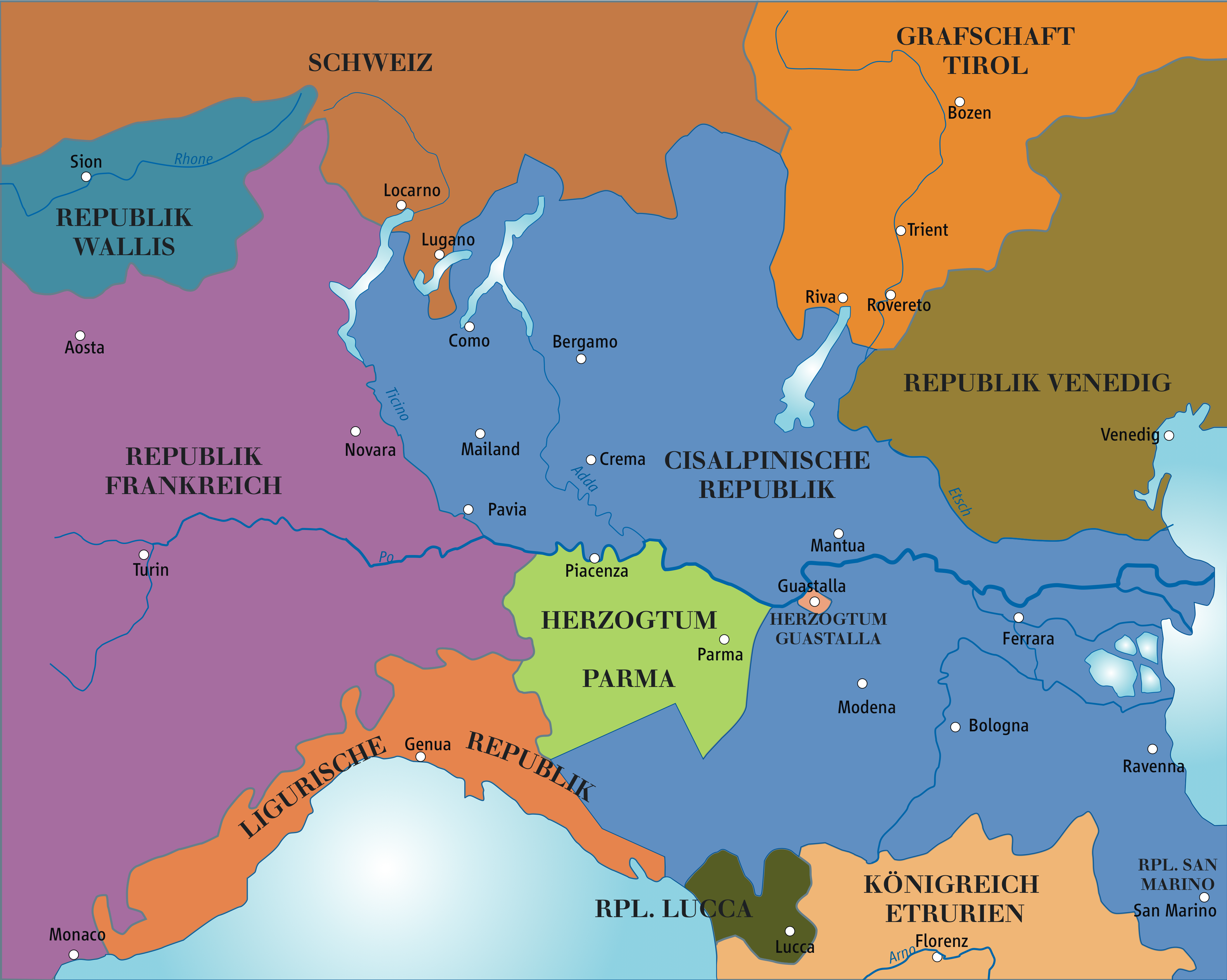 Map of Northern Italy 1803